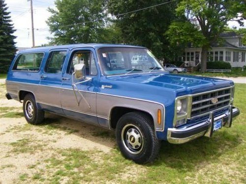 1979 Suburban C20 with 454